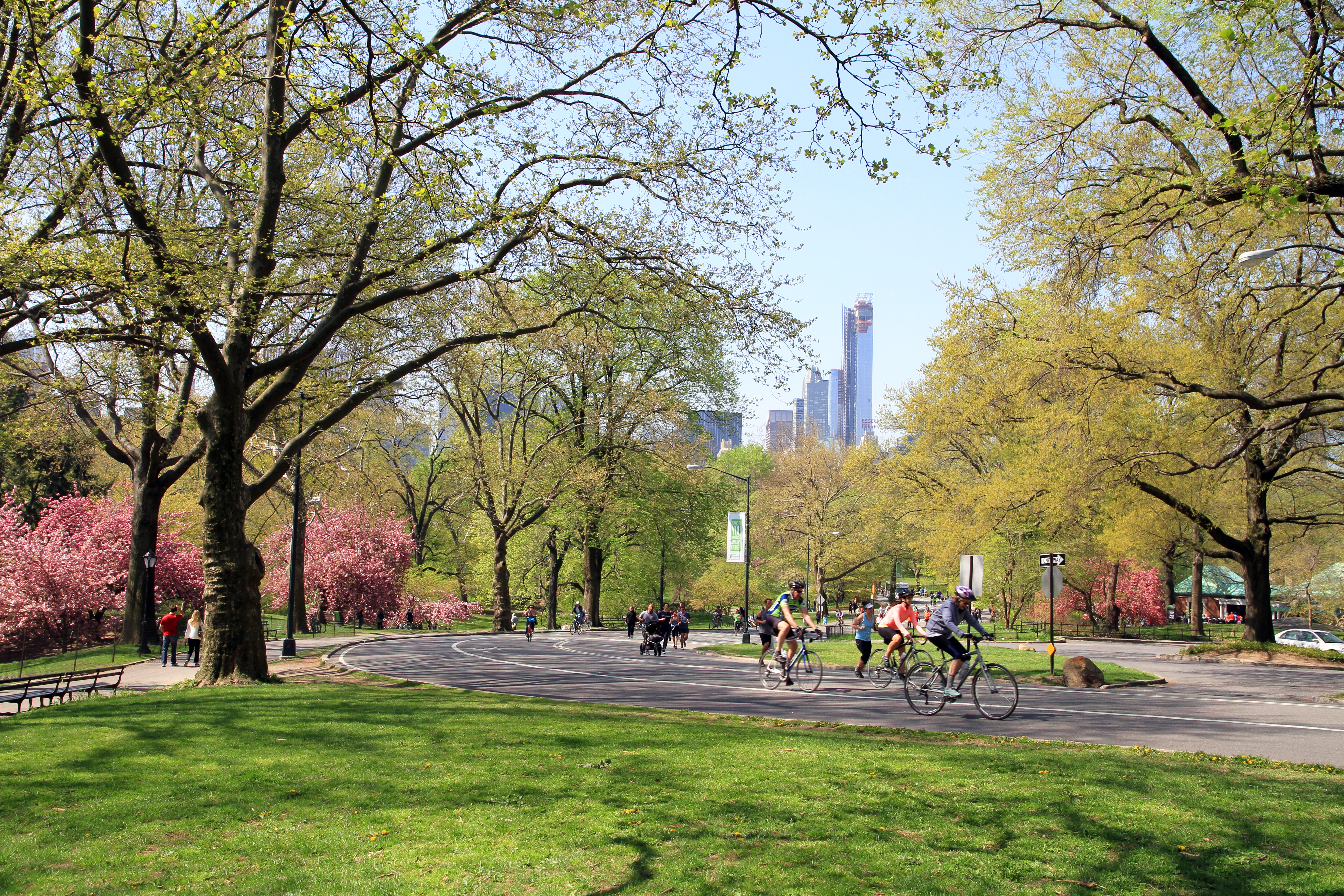 Cycling